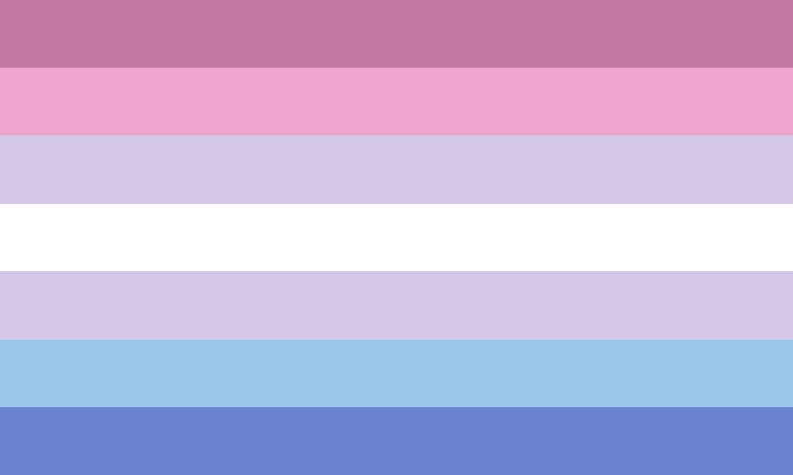 The most common flag used to represent Bigender individuals